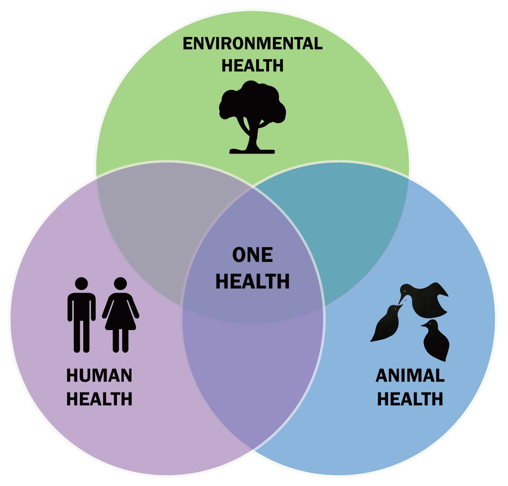 The triad consisting the One Health Concept